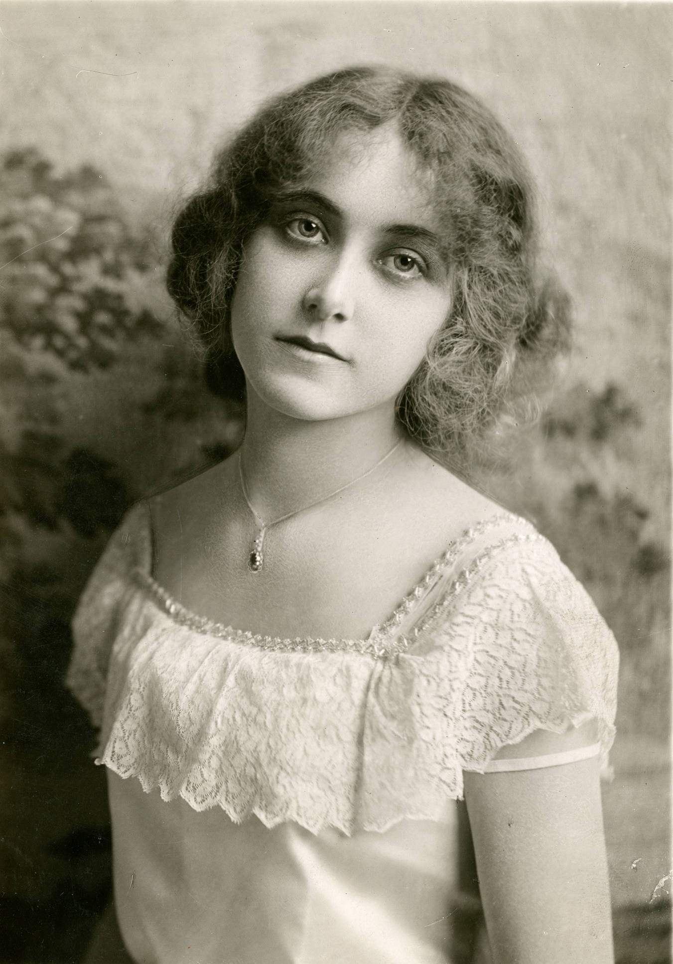 Early silent film actress Francelia Billington. Subjects: actresses